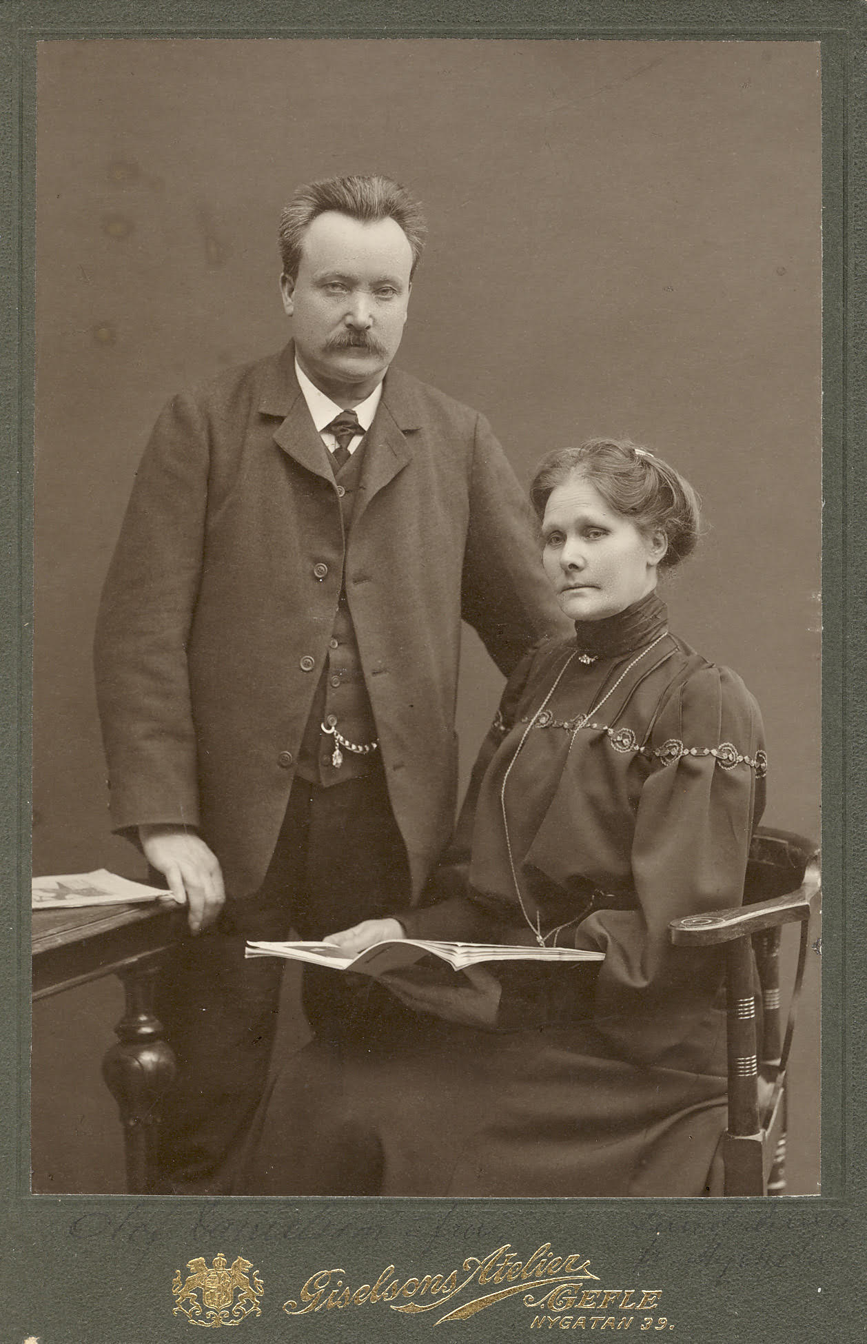 Kymmer Olof Danielsson and his spouse Lund Anna Jonsdotter around 1900.